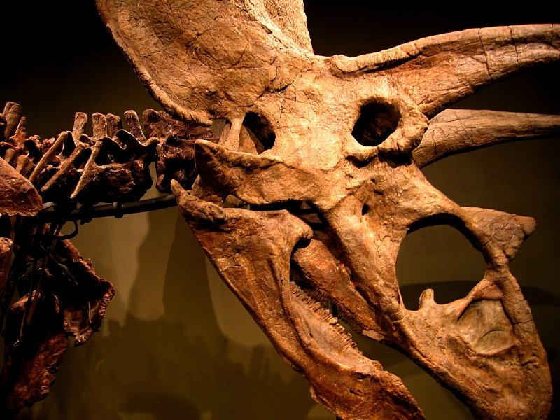 Closeup of the skull and neck of Titanoceratops ouranos.